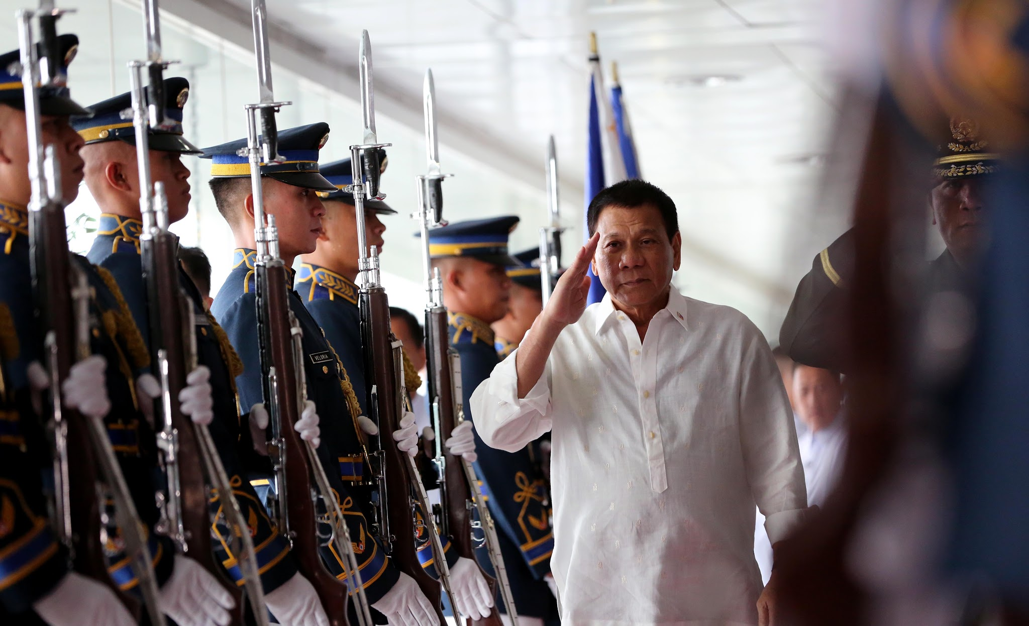 President Rodrigo Duterte walks past the honor guards at the NAIA Terminal 2 in Pasay City prior to his departure for Vietnam on September 28. REY BANIQUET/ PRESIDENTIAL PHOTO